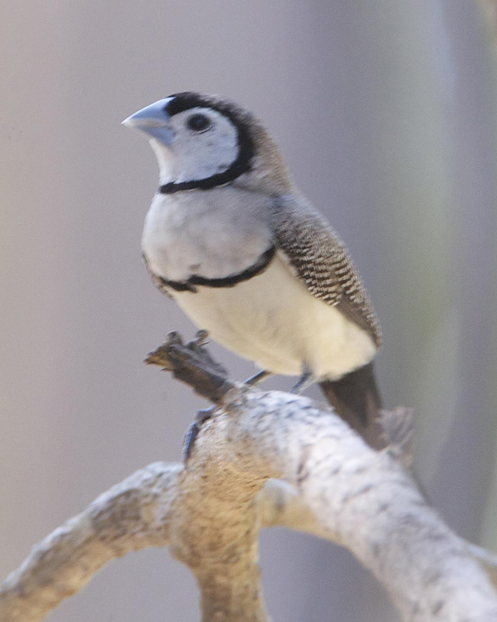 Double-barred Finch Taeniopygia bichenovii ssp Taeniopygia bichenovii annulosa Darwin, Northern Territory, Australia August 2010 Distribution: 690V0139